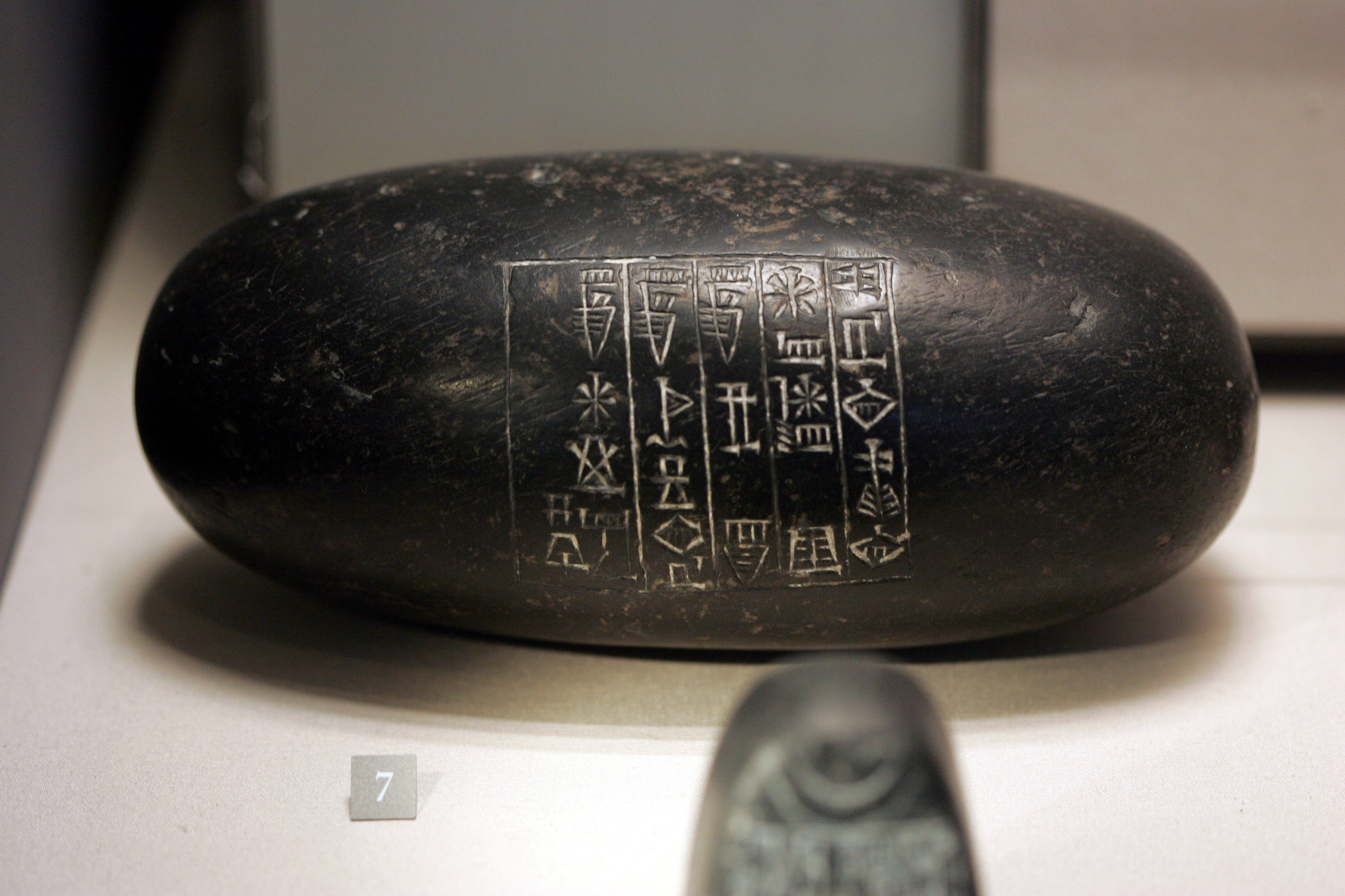 ArtistUnknownDescription 2.520 kg weight inscribed with the name of Shu-Sin, king of Ur, and marked "5 legal mines". ca. 2030 BCE Girsu Diorit Current location (Inventory)Louvre Museum Native nameMusée du LouvreLocationParisCoordinates48° 51′ 37″ N, 2° 20′ 15″ E Established1793Website control : Q19675 VIAF: 257711507 ISNI: 0000 0001 2260 177X ULAN: 500125189 LCCN: n80020283 NLA: 35912436 WorldCat Richelieu Ground floor Mésopotamie, 2350 à 2000 avant J.-C. environ Room 2 Display 6 : IIIe dynastie d'Ur, 2112 - 2004 avant J.-C.Accession numberAO246Credit lineFouilles E. de Sarzec, 1881ReferencesLouvre.frSource/PhotographerRama 2.520 kg weight inscribed with the name of Shu-Sin, king of Ur, and marked "5 legal mines". ca. 2030 BCE Girsu Diorit